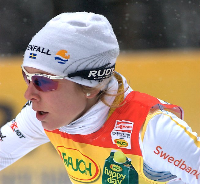 Lisa Larsen at the Tour de Ski 2010 in Oberhof